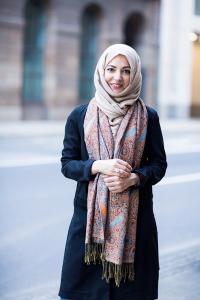 Khola Maryam Hübsch